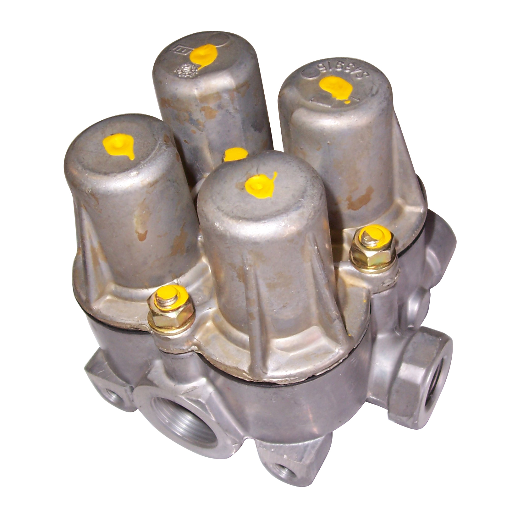 truck's air system four way protection valve